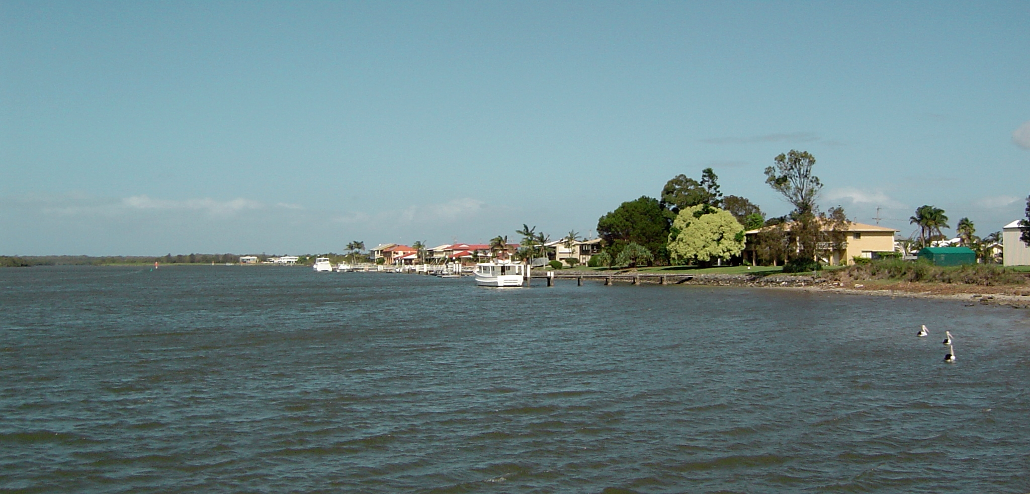 Photo of Tipplers Passage and shoreline from Jacobs Well, Queensland, Australia.